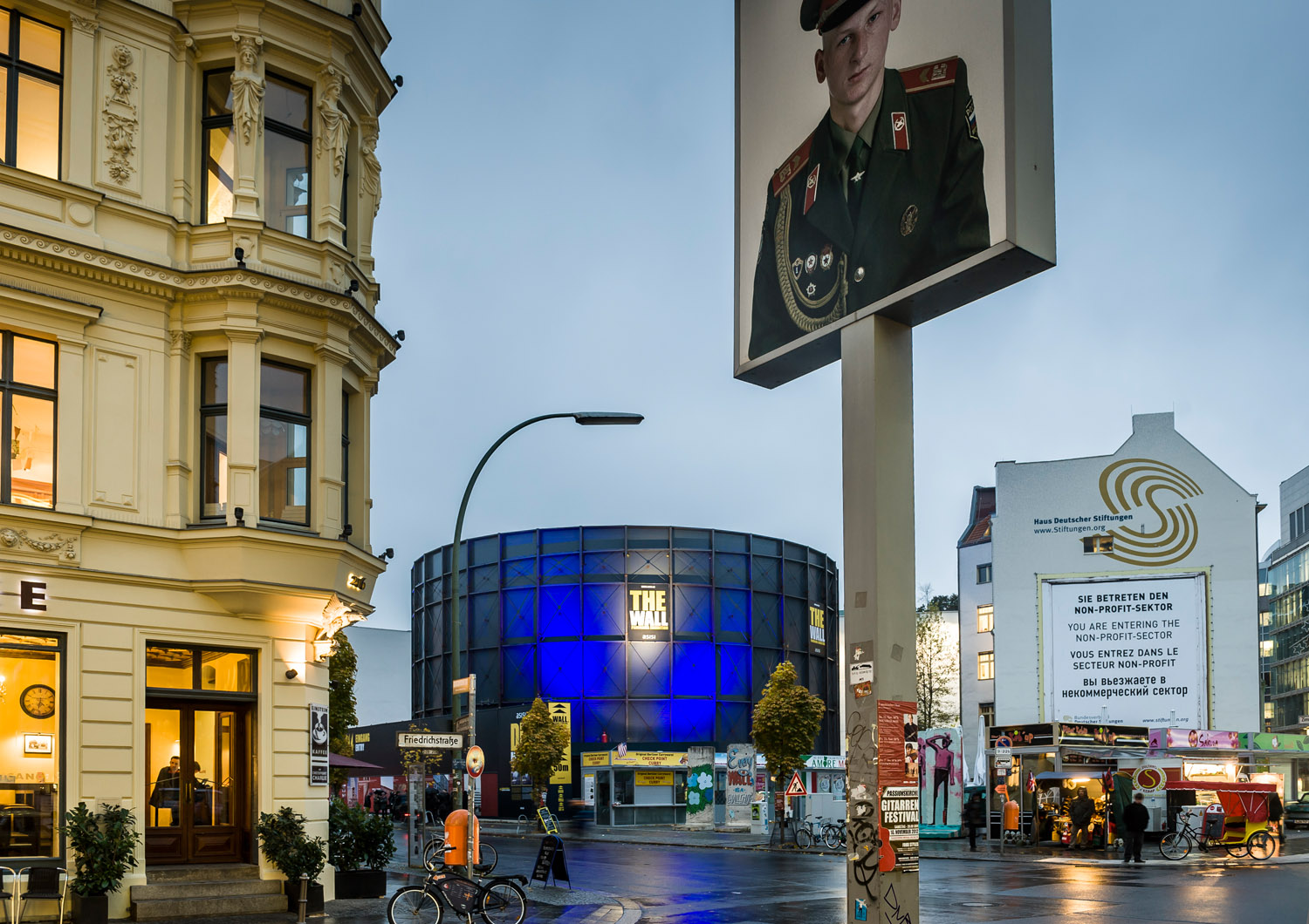 Asisi Panorama Berlin, Photo N.Michalke © asisi